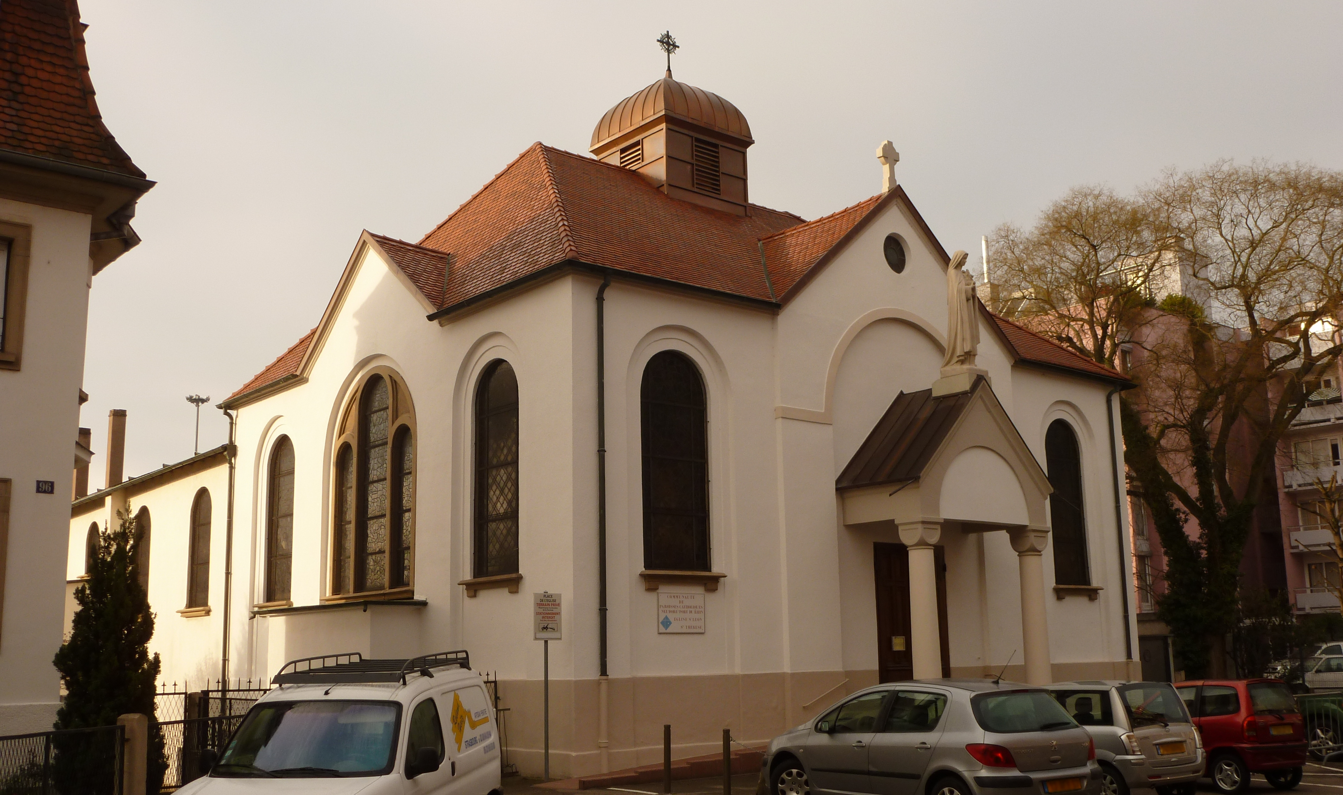 Church Saint Leo Ⅸ – Saint Thérèse of Lisieux in Strasbourg Neudorf (Schluthfeld)